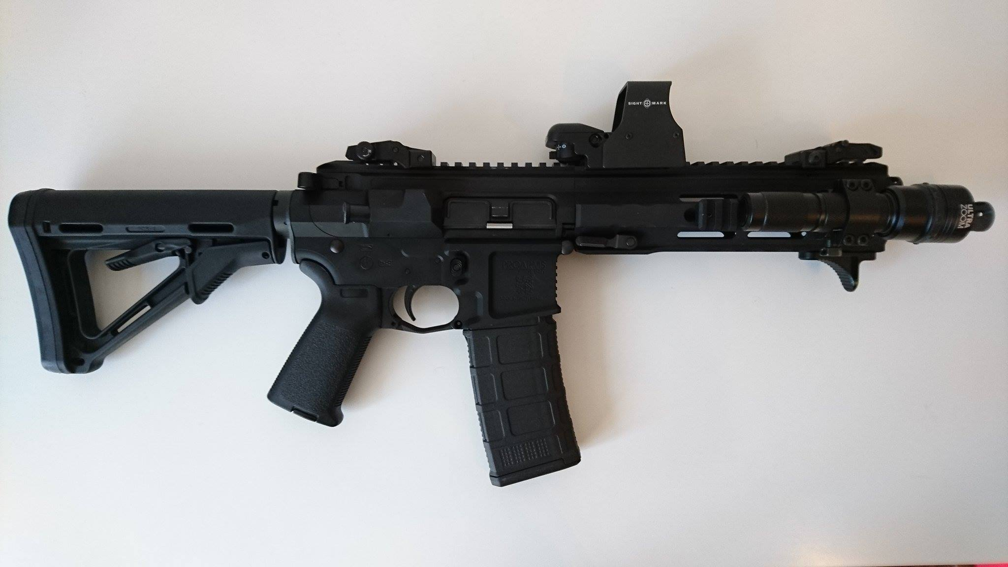 PAR MK3 Rifle - AR 15 derivative by Proarms Armory, Czech Republic